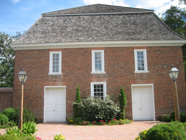 St. Barnabas Church in October of 2007